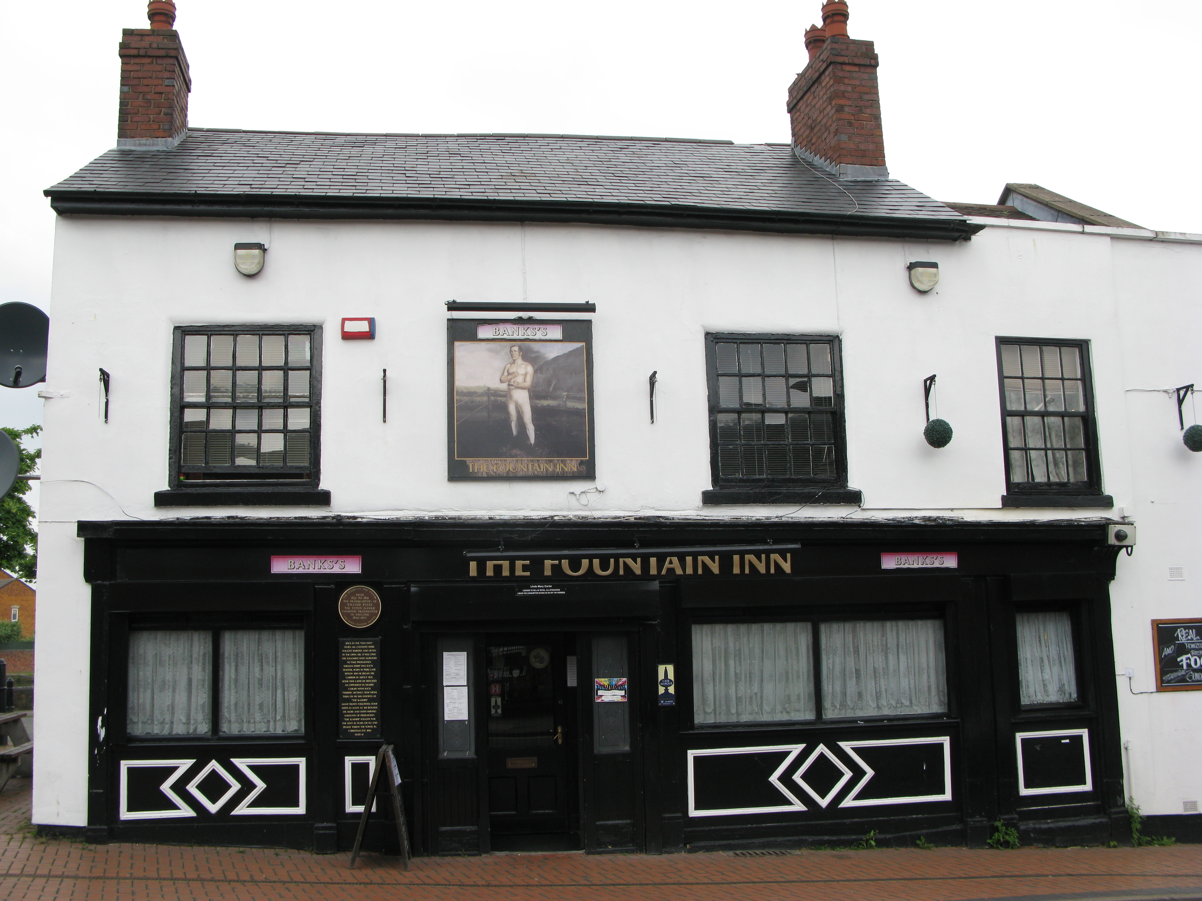 Grade II